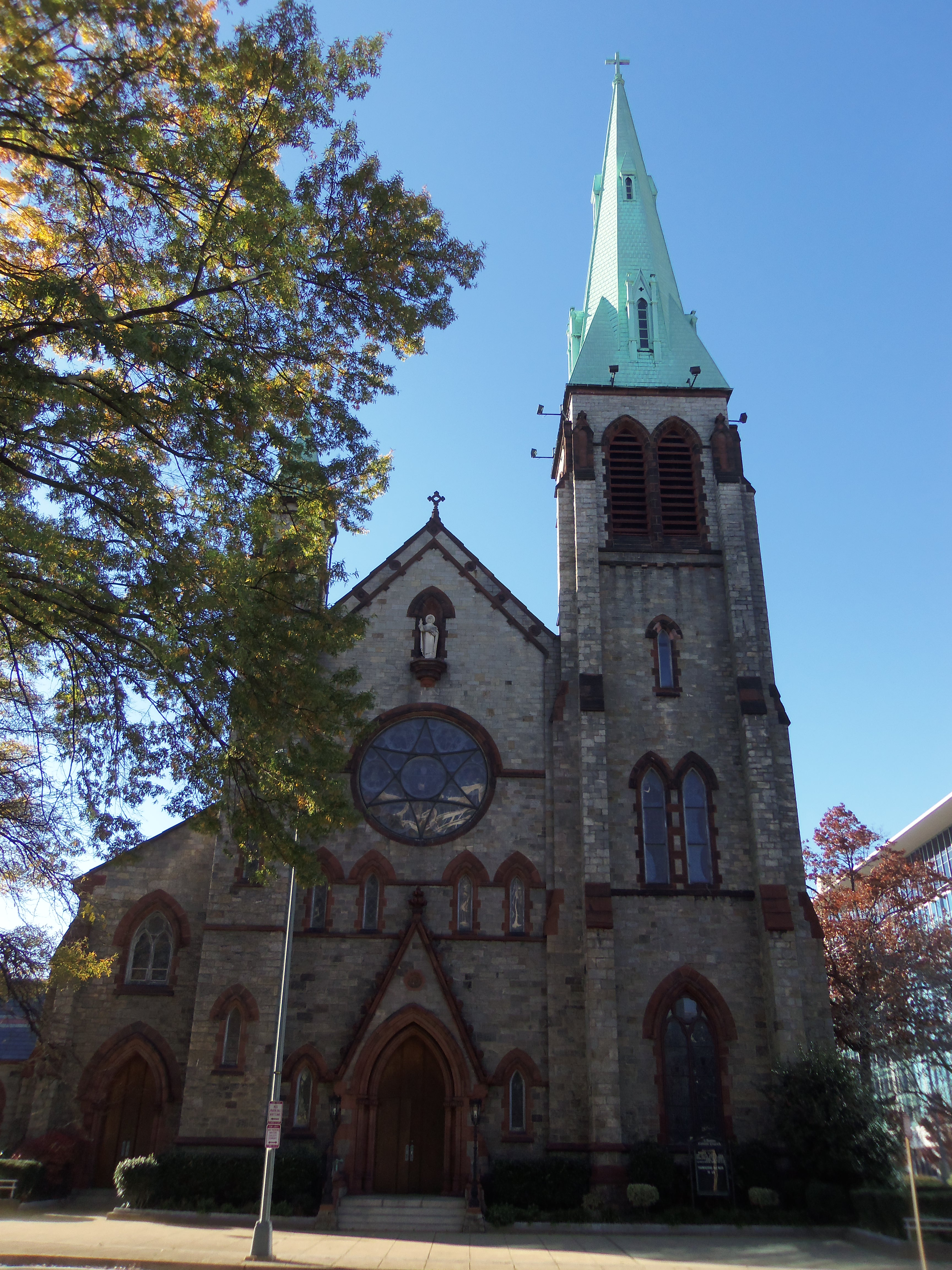 St. Dominic's Catholic Church on 6th Street SW in Washington, DC.